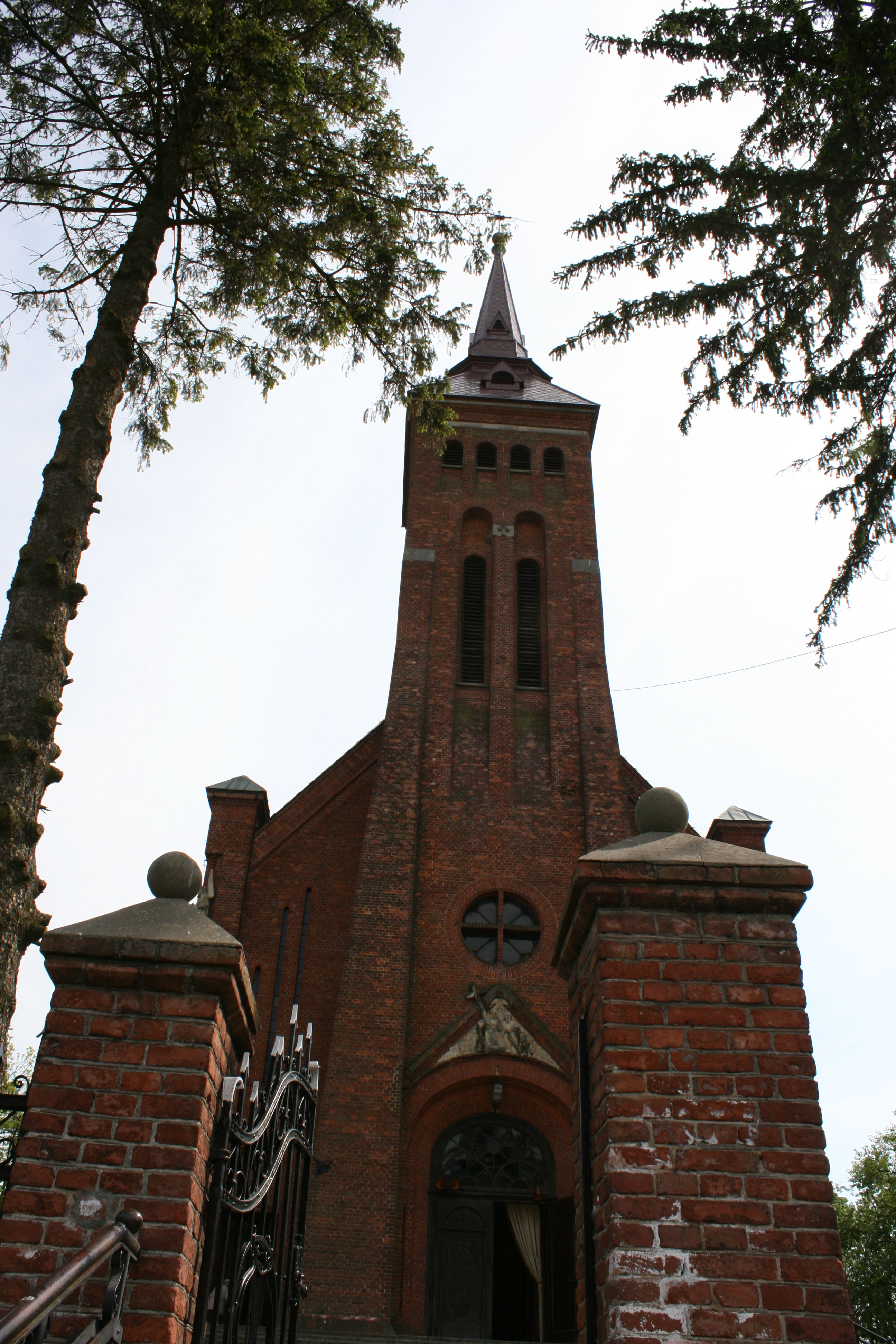 Church in Komarów-Osada